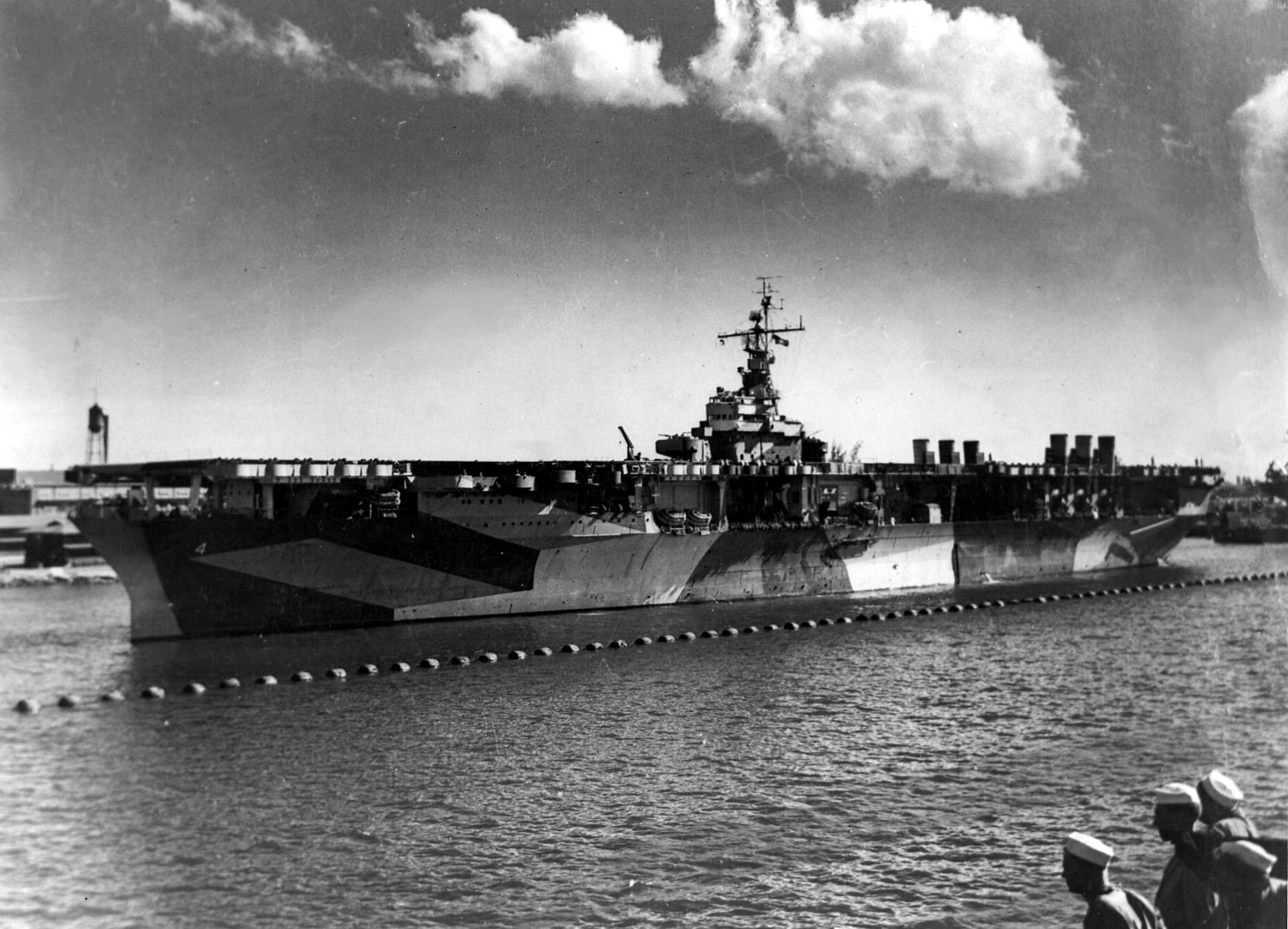 The U.S. Navy aircraft carrier USS Ranger (CV-4) at anchor at Pearl Harbor, Hawaii (USA). Ranger operated out of Pearl Harbor beween 3 August and 18 October 1944. Note her camouflage paint scheme Measure 33 Design 1A. This was the only camouflage measure which used four different colours.